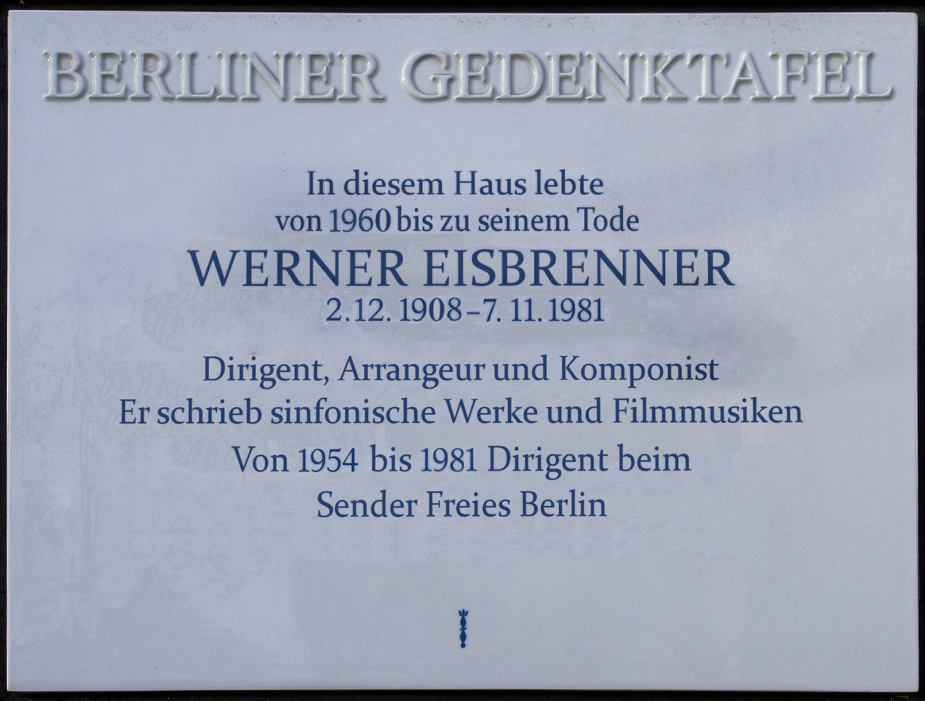 Berlin memorial plaque, Werner Eisbrenner, Bismarckallee 32a, Berlin-Grunewald, Germany